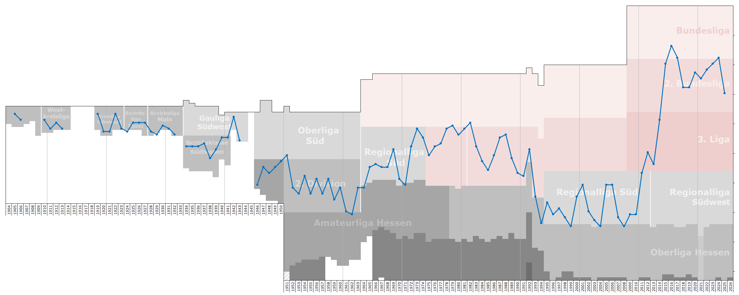 Chart of end-season table positions of Darmstadt in the football league system of Germany. Data source: RSSSF, wikipedia, f-archiv.de, fussball.de